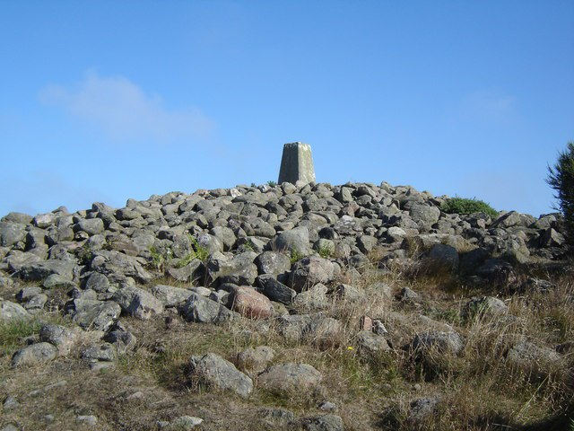 Baron's Cairn on Tullos Hill. Baron's Cairn with the Ordnance Survey Trig. point on the top. The highest point on Tullos Hill.